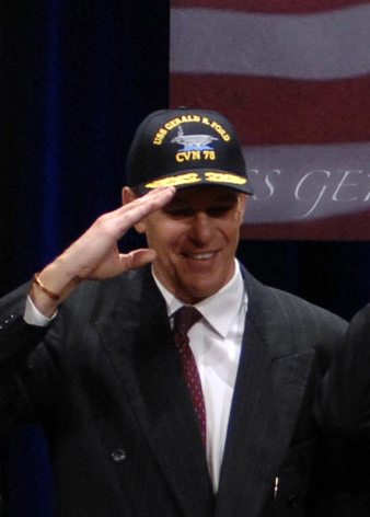 070116-N-3642E-171 Washington, D.C. — Steven Meigs Ford salutes as a model of USS Gerald R. Ford (CVN-78) is unveiled. The ship as well as the newest class of aircraft carriers were named after Gerald Ford, the 38th president of the United States, during a ceremony at the Pentagon, Washington, D.C.